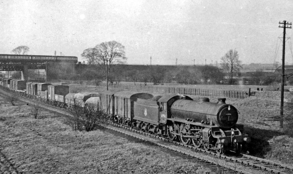 Southbound freight on the Leen Valley line at Linby, passing under the Great Central main line. View NE, towards Kirkby-in-Ashfield, Shirebrook (on the ex-Great Northern Leen Valley line, closed finally in 1968) and Annesley, Chesterfield and Sheffield (Victoria) on the ex-Great Central main line (closed 5/9/66). This was a train-watcher's paradise, because the ex-Midland Nottingham - Mansfield line ran parallel here - off view to the right. Note the end of an Up Express on the GC line on the bridge. The locomotive is LNER B1 4-6-0 No. 61056.